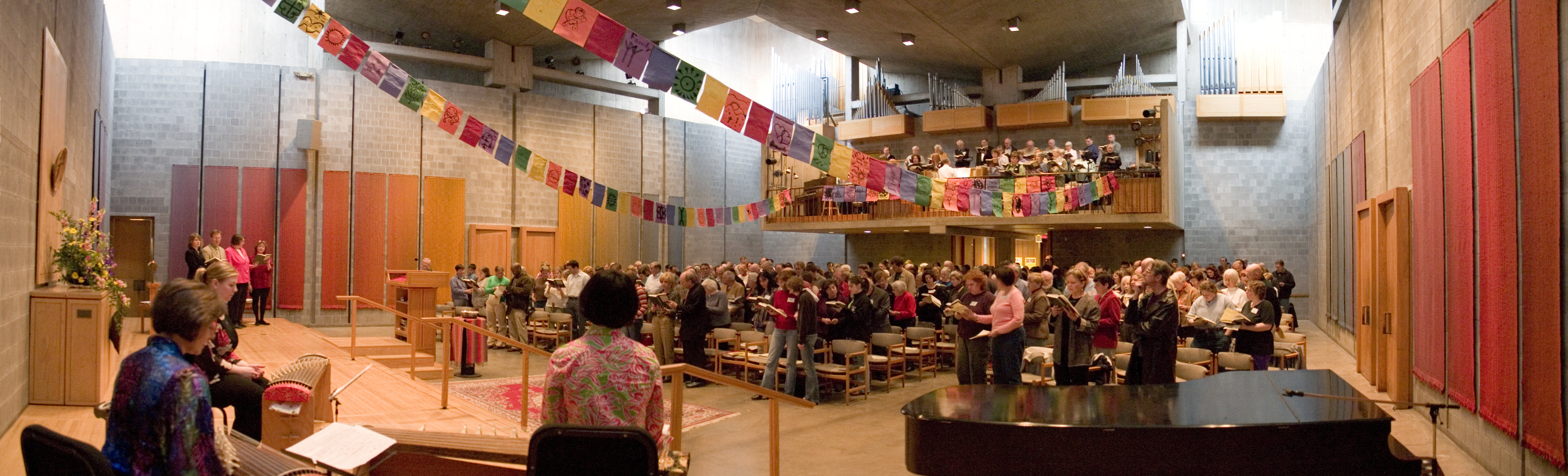 Sanctuary of First Unitarian Church of Rochester during Sunday service